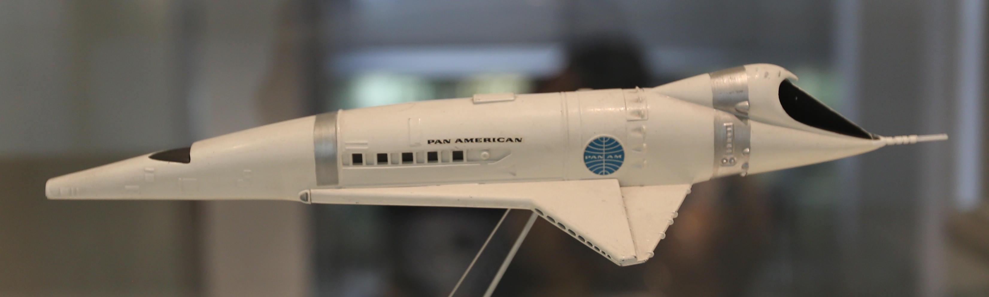 Photo of a airfix model of the Orion III spaceplane from 2001: A Space Odyssey